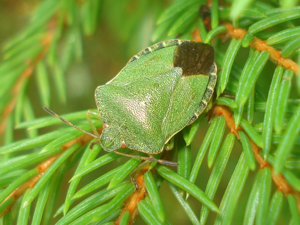 Green shield bug (Palomena prasina)